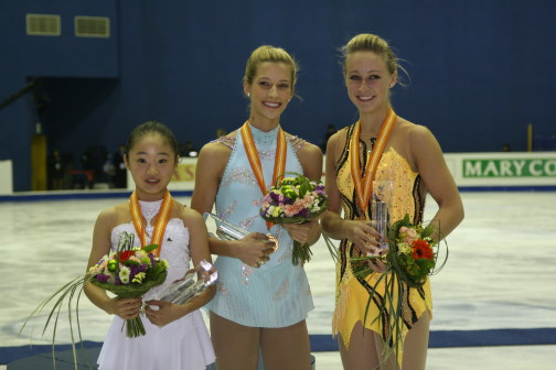 The ladies podium at the 2008-2009 Junior Grand Prix Final. From left: Yukiko Fujisawa (3rd), Becky Bereswill (1st), Alexe Gilles (2nd).